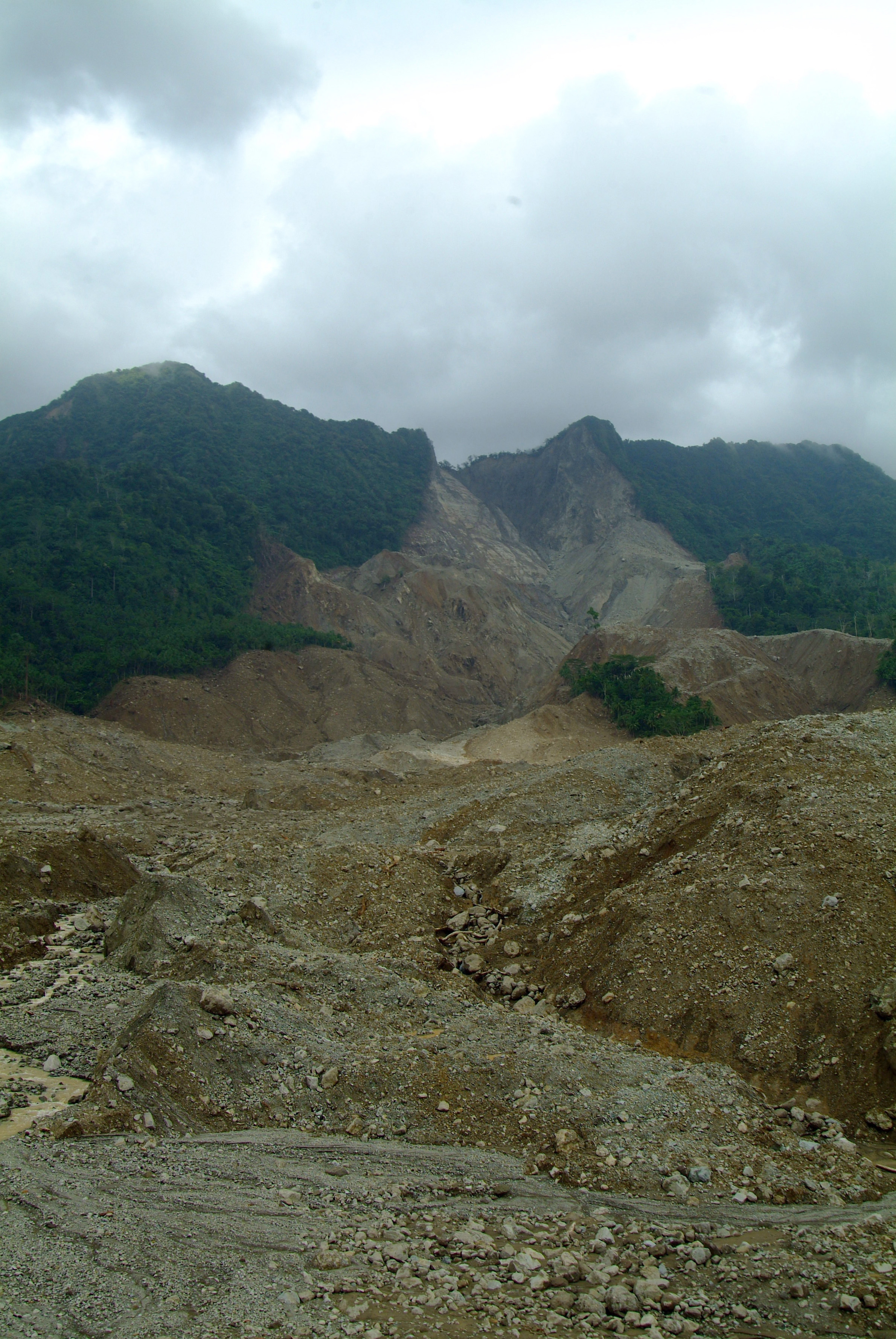 Southern Leyte, Philippines (Feb. 24, 2006) - A view of the mudslide, which destroyed the town of Guinsahugon the morning of Feb. 17. Guinsahugon is located in the southern part of the island of Leyte in the Philippines. Sailors and Marines from the Forward Deployed Amphibious Ready Group (ARG), USS Harpers Ferry (LSD 49) and USS Essex (LHD 2) arrived off the coast of Leyte Feb. 19 to provide humanitarian assistance and disaster relief to victims of the landslide. U.S. Navy photo by Journalist 2nd Class Brian P. Biller (RELEASED)